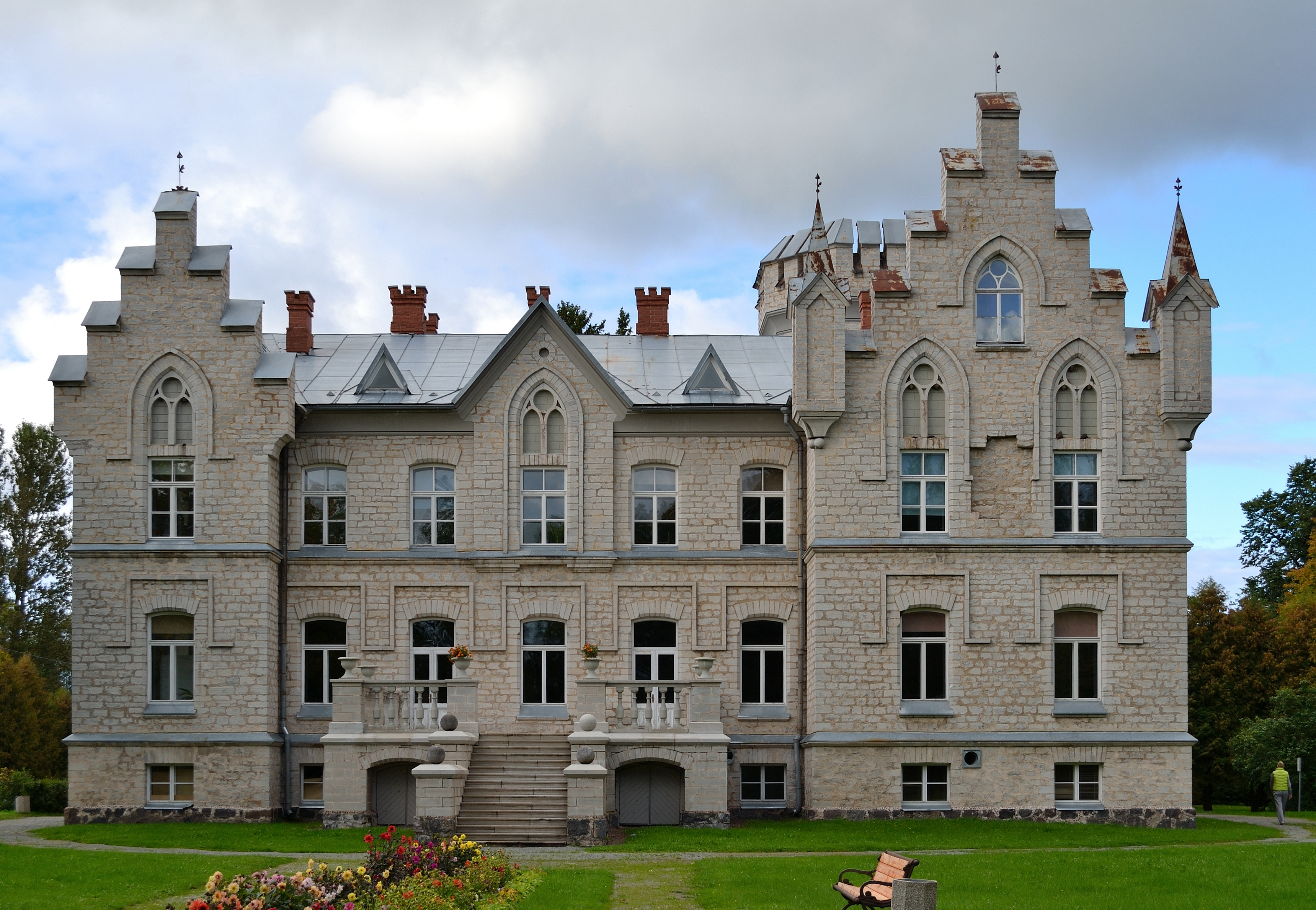 Vasalemma manor main building, 1893 This photograph was taken with a Nikon D3100